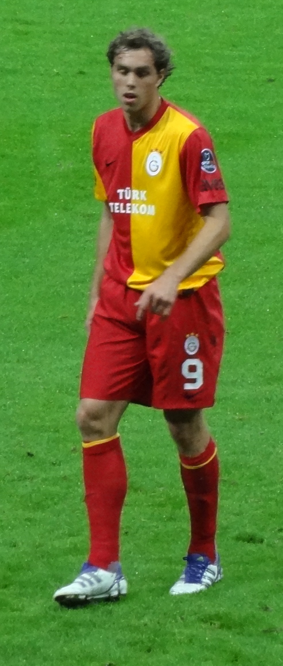 elmandr vs eskişehir